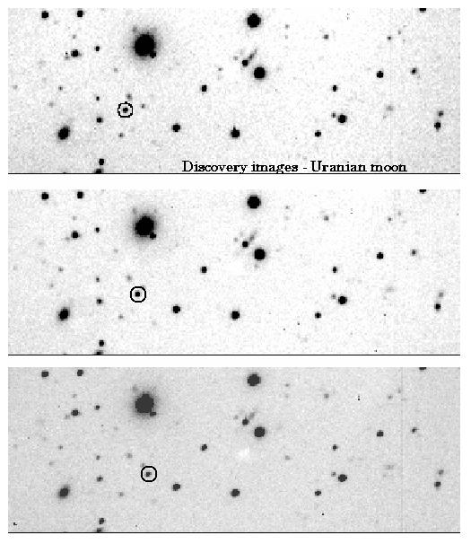 This shows the discovery image of brighter of the two new moons of Uranus. It is designated as Sycorax (S/1997 U 2) and later names Sycorax. Notice the motion of the moon (circled) with respect to the background stars. The images were taken roughly one hour apart on September 7, 1997. A faint asteroid in the main belt (not circled) may also be observed and identified by its much faster rate of motion.